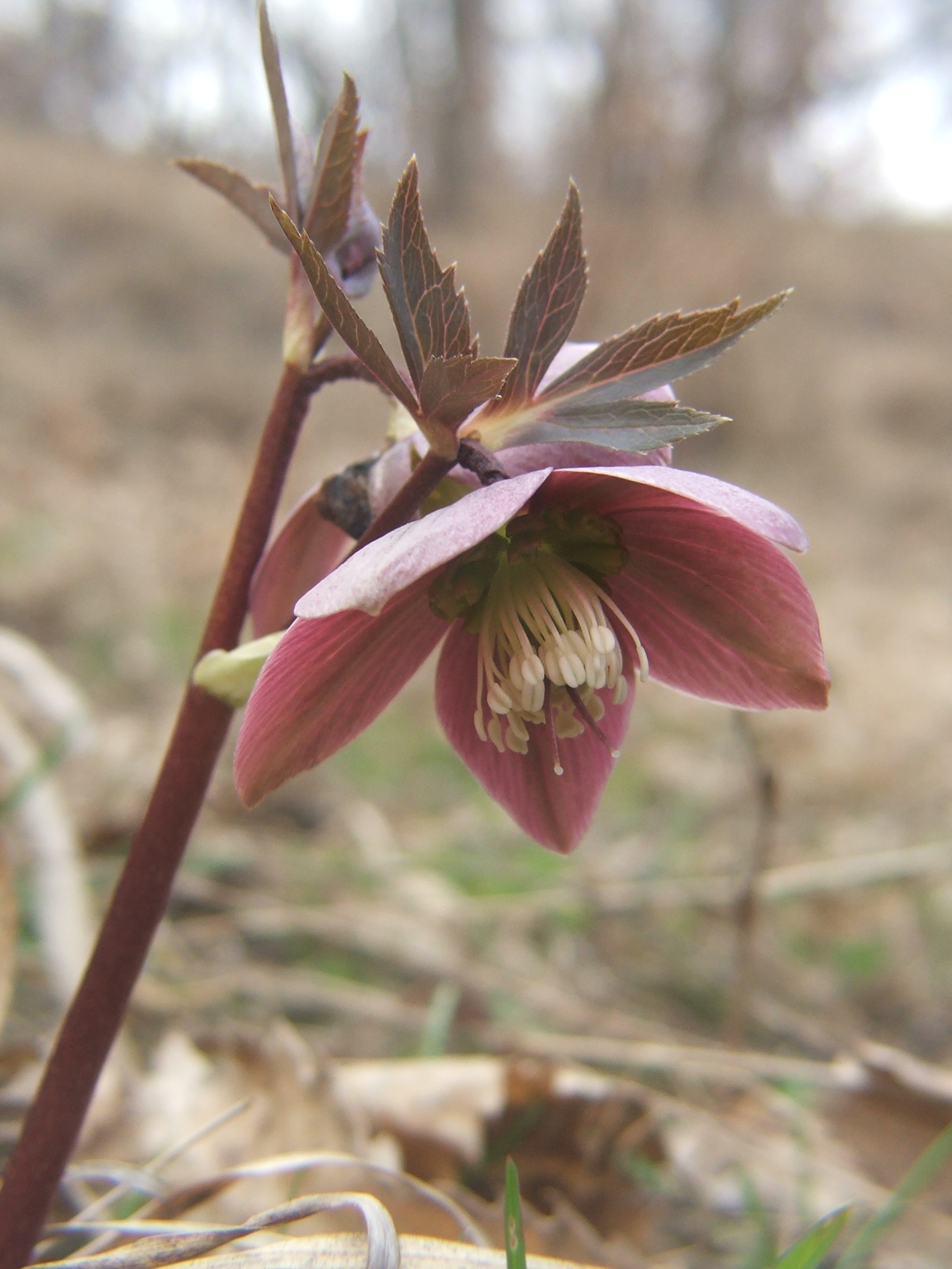 Helleborus purpurascens in Börzsöny close to Nagymaros, Hungary.